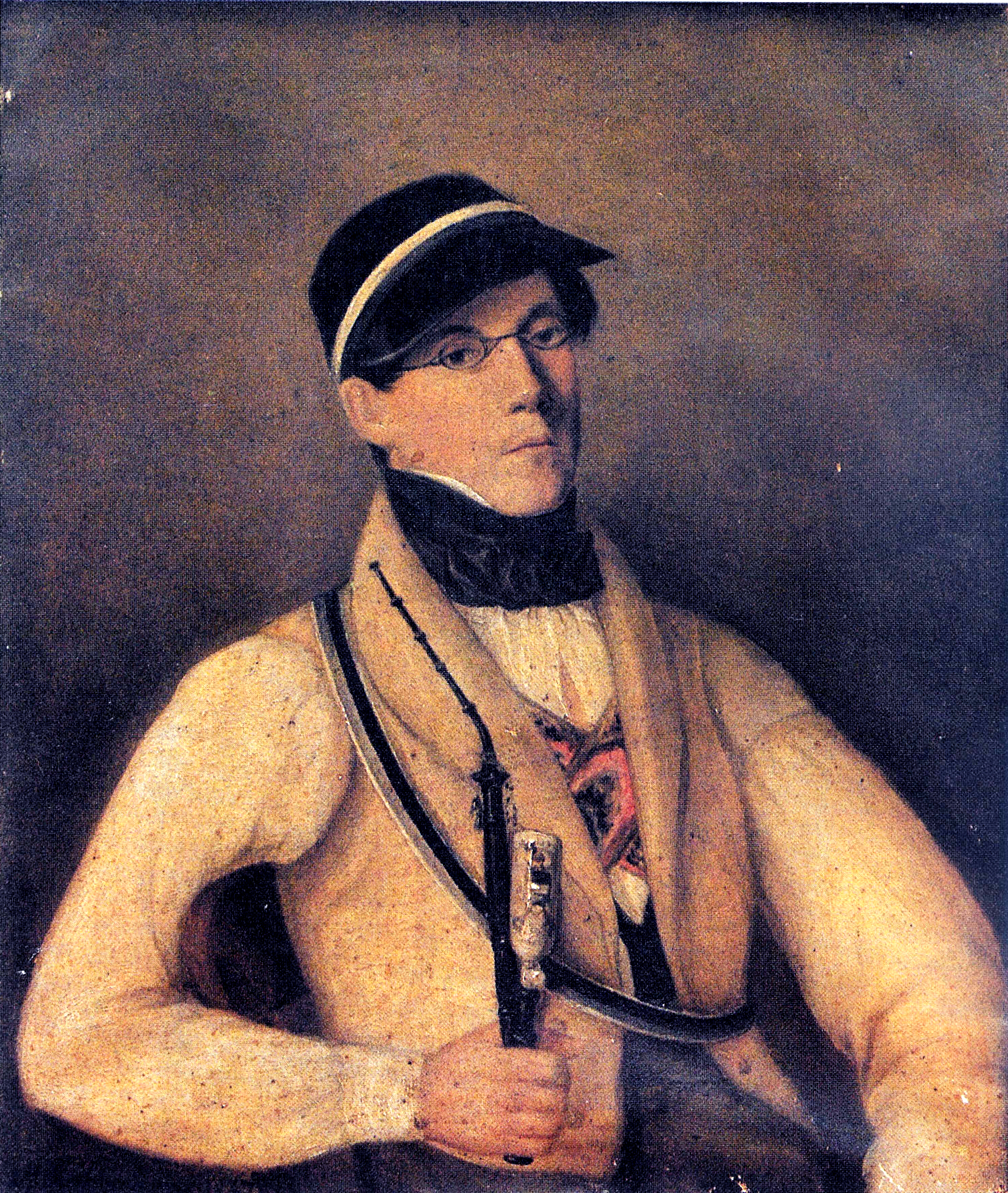 Portrait of Munich student Bernhard Mayer born, February 16, 1818, died July 31, 1874 in Lauingen/Germany, in the coulours of his Munich student corps "Suevia"